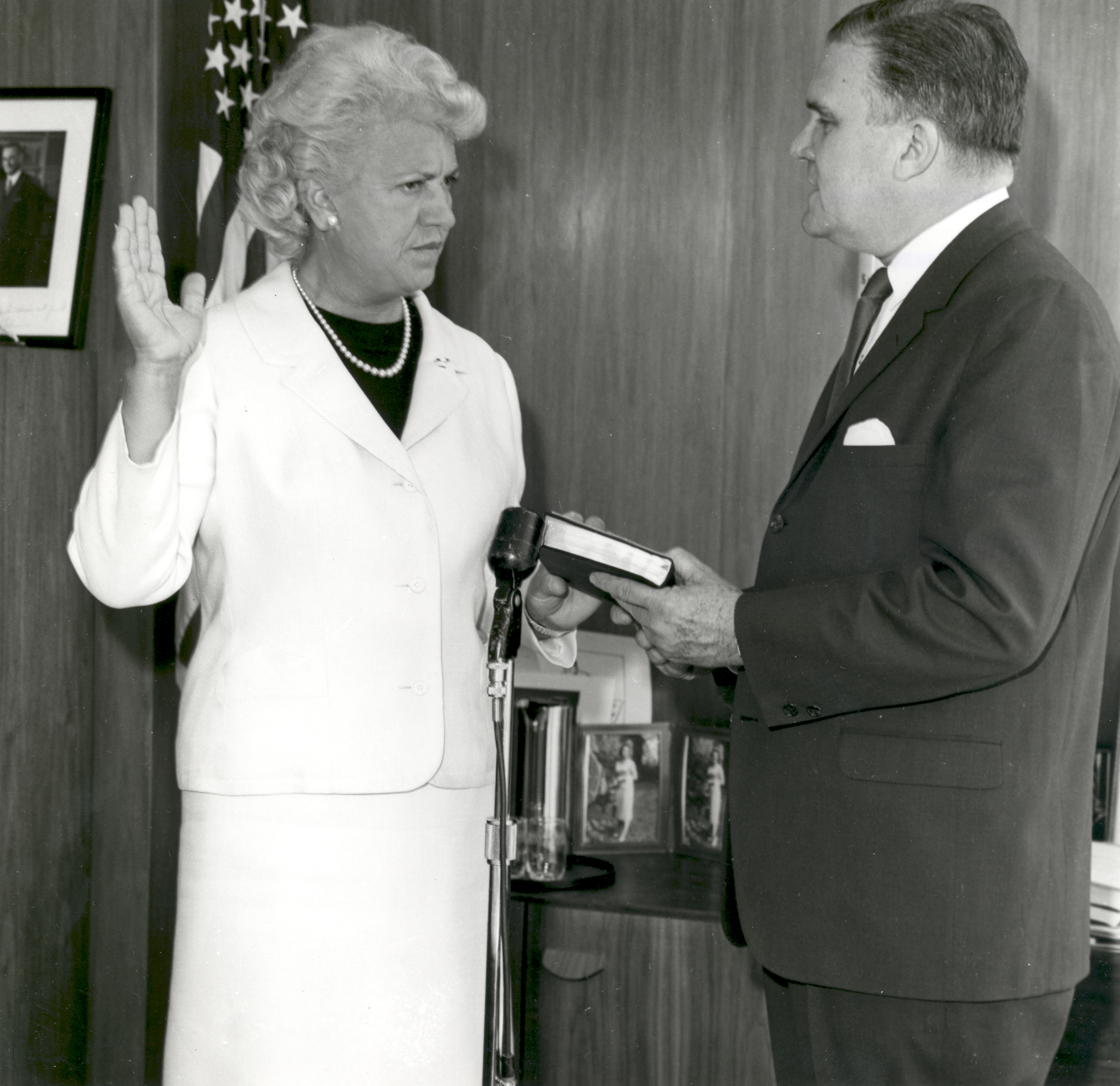 Jacqueline Cochran, first woman aviator to break the sound barrier,is sworn in as a consultant by NASA Administrator James E. Webb in 1961.